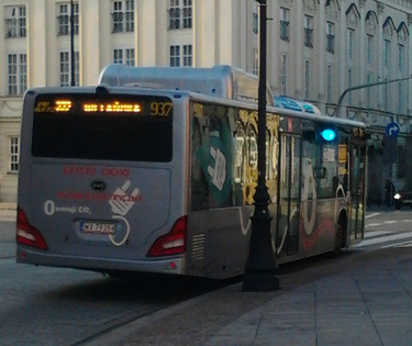 BYD electric bus in Warsaw, Poland.